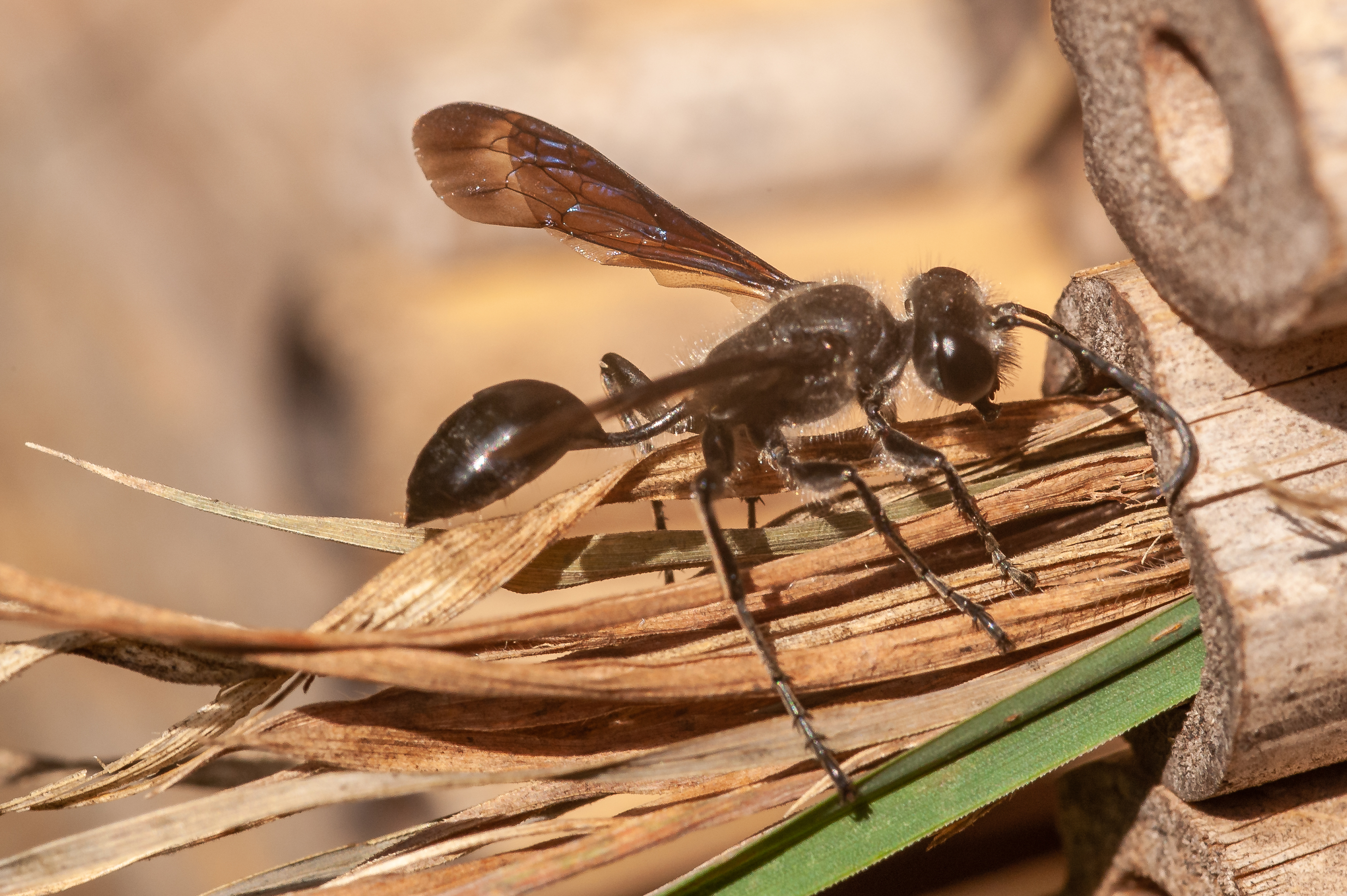 Isodontia mexicana building its nest, image taken in Stuttgart, Germany